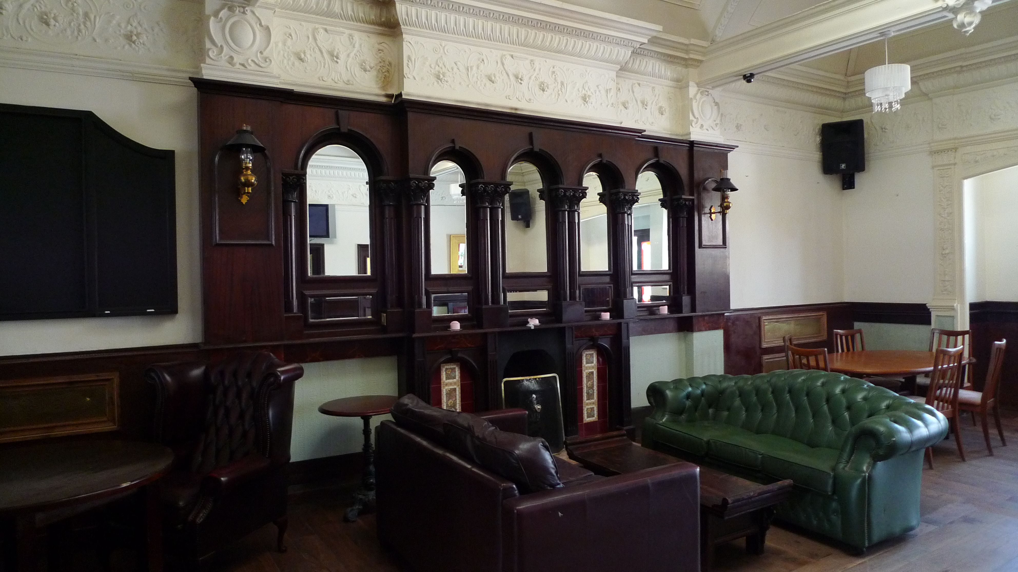 The mirrors and sofas in the large rear room of this Victorian pub. (View of exterior.)